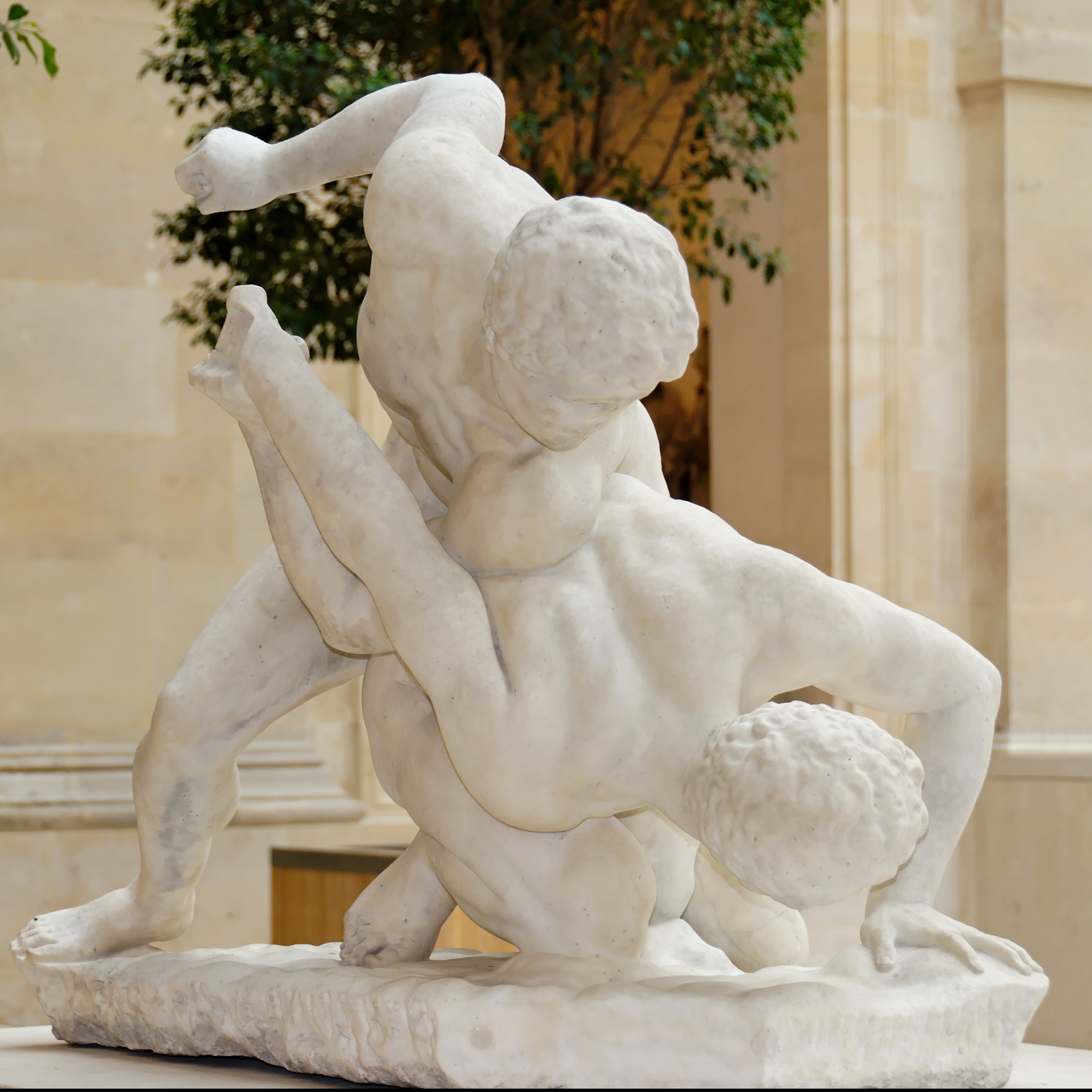 Copy of the celebrated group of the “Uffizi wrestlers”, stored in the Galleria degli Uffizi in Florence, Italy. Marble, 1684–1688. The statue was first installed in the park of Versailles, then transferred in 1689 to the park of Marly and in 1797 to the Tuileries Gardens.